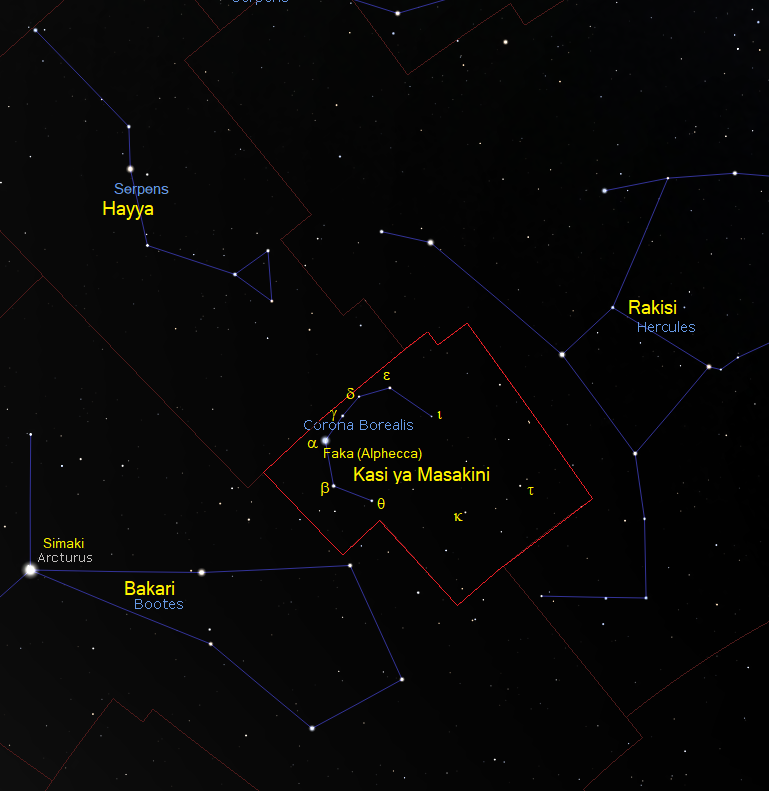 Constellation Corona Borealis as seen from Tanzania, Swahili labelled Kiswahili: Kundinyota Kasi ya Masakini (Corona Borealis) jinsi inavyoonekana kutoka Tanzania, majina kwa Kiswahili